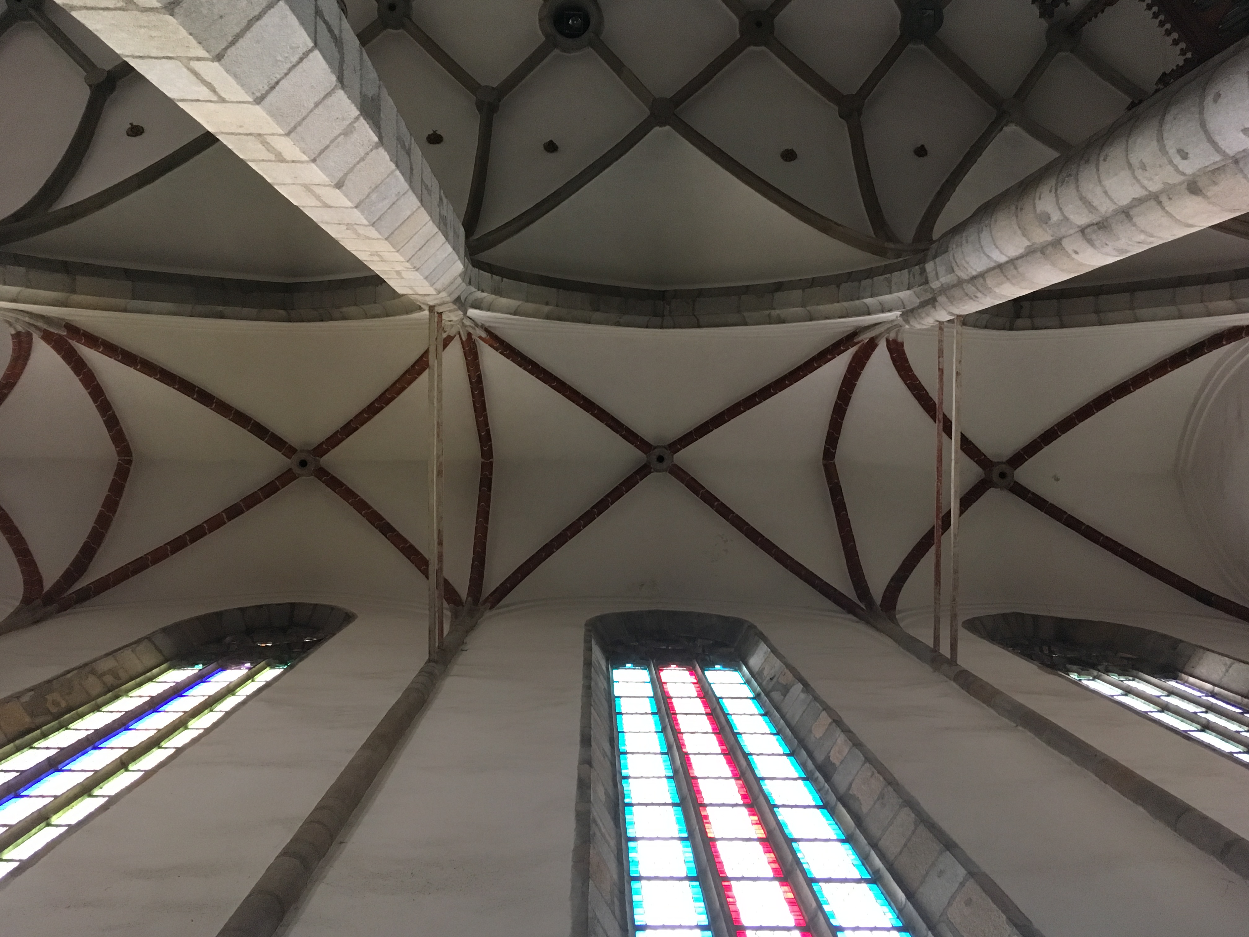 aisle vaulting